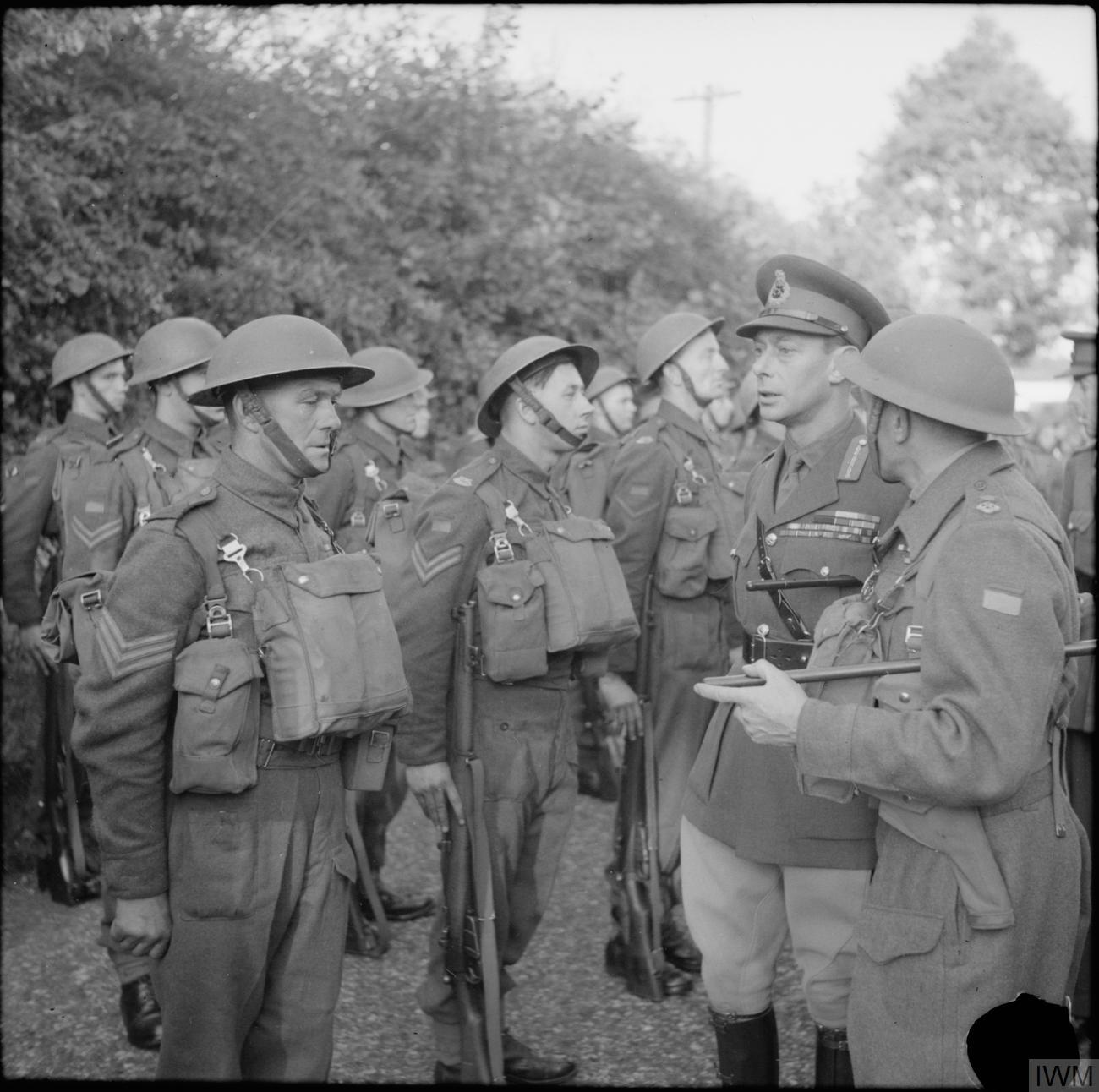 The British Army in the United Kingdom 1939-45 The King inspects men of the Suffolk Regiment during a tour of Western Command, 23 October 1941.